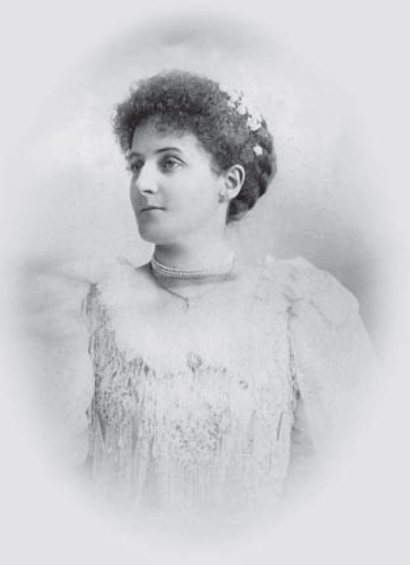 Margaret-Emma Robertson (Myklukha-Maclay)